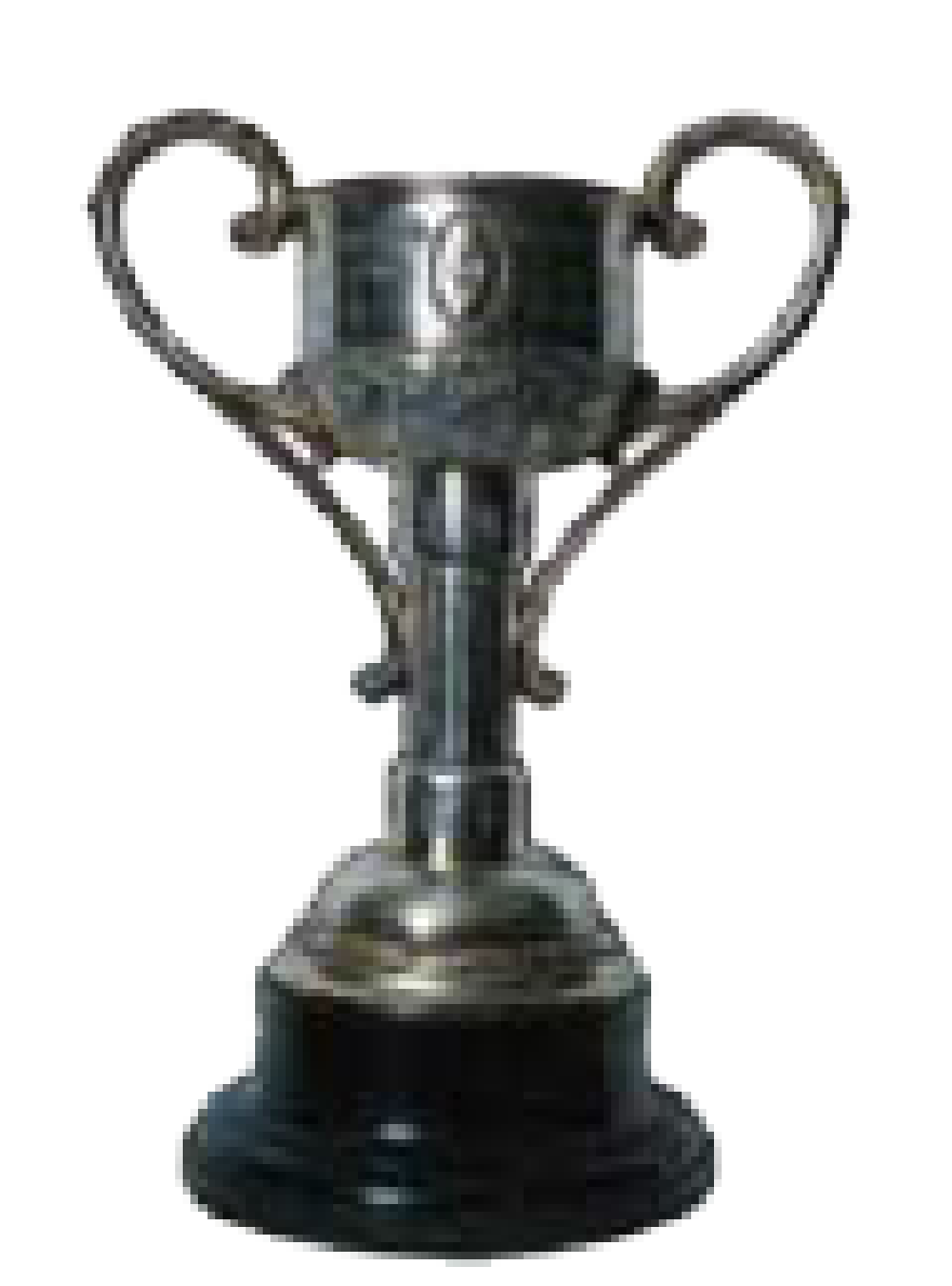 Las trophy of Campeonato Regional Centro